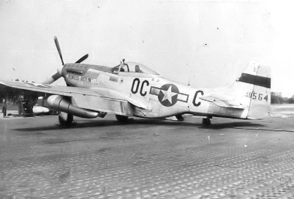 P-51 Mustang of the 356th Fighter Group, RAF Martlesham Heath, England.